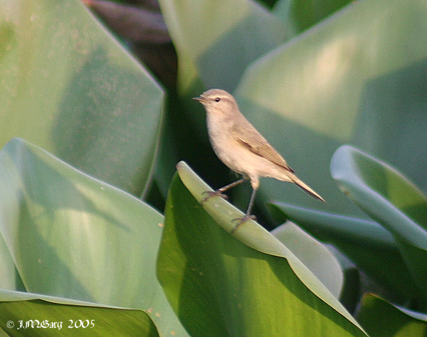 Common Chiffchaff Phylloscopus collybita in Kolkata, West Bengal, India.